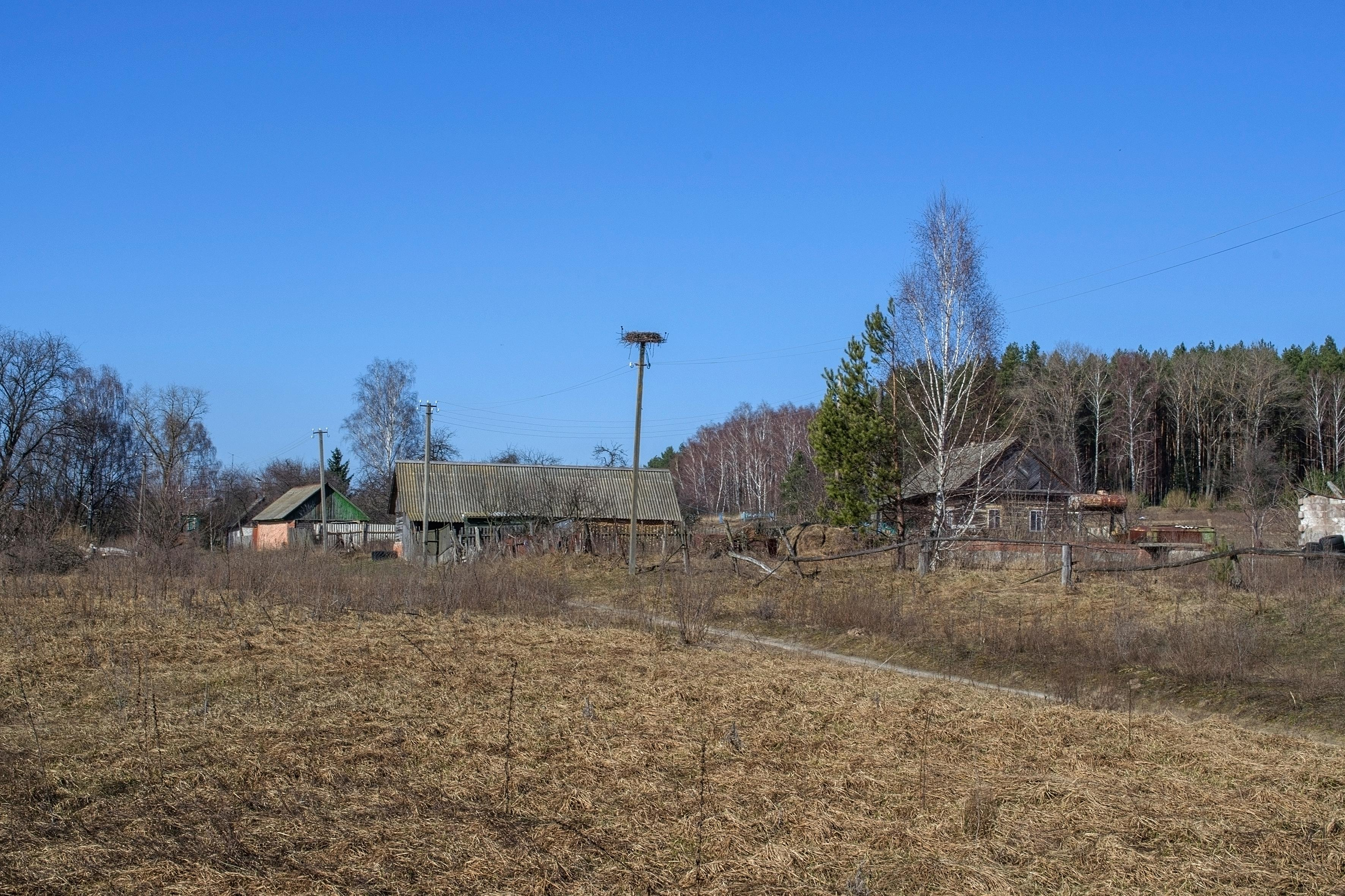 v.Rohoshchi, Chernihiv Raion, Chernihiv Oblast, Ukraine